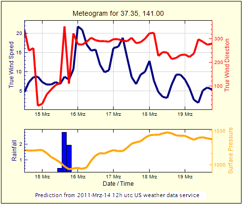 Wind and rain forecast for Fukushima, Japan as of 2011-03-14 12:00 UTC. Wind direction/° with 0°: North, wind speed/knot, air pressure/hPa, railfall/mm